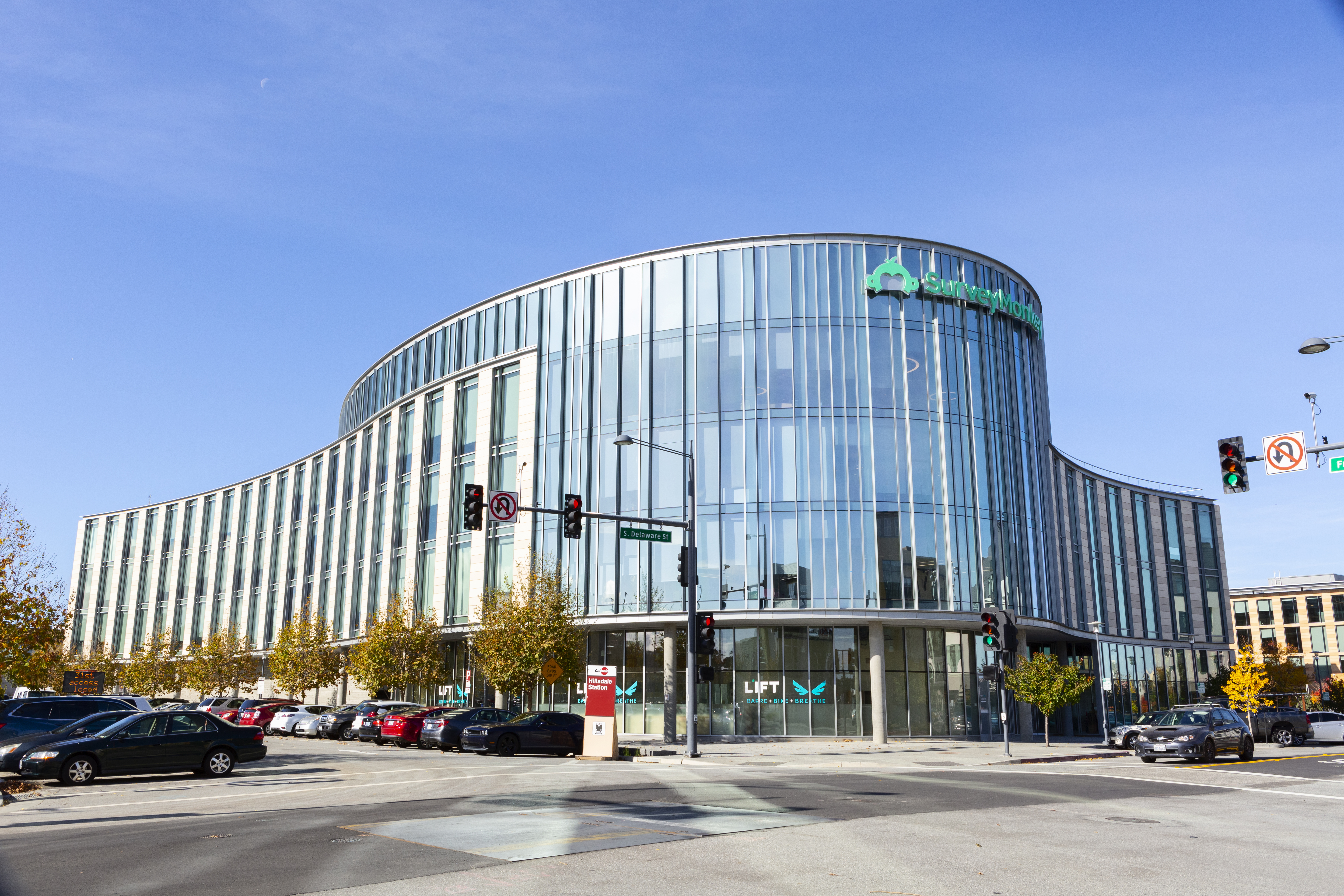 New SurveyMonkey Headquarters